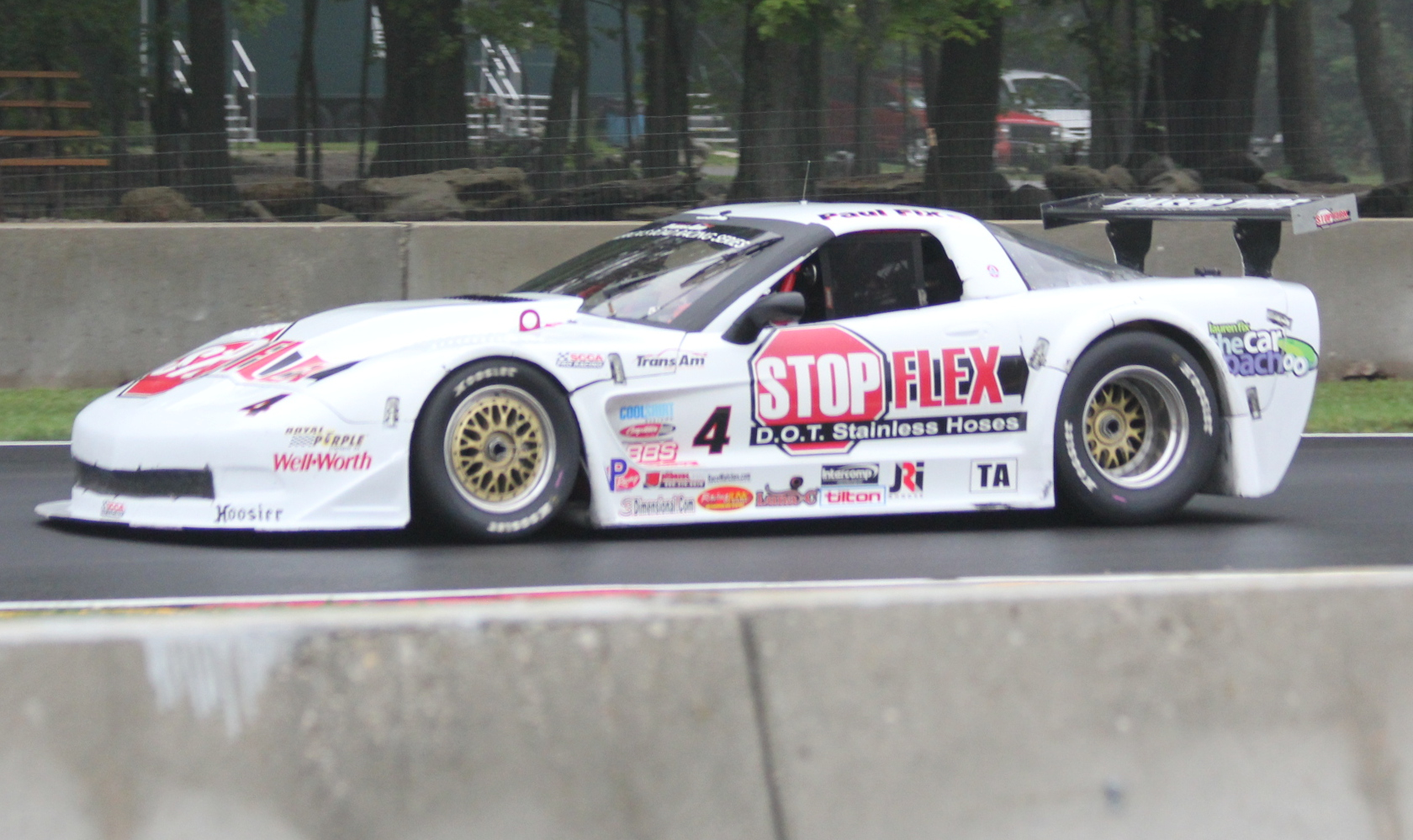 The SCCA Trans Am series car of Paul Fix at the Next Dimension 100 race at Road America.